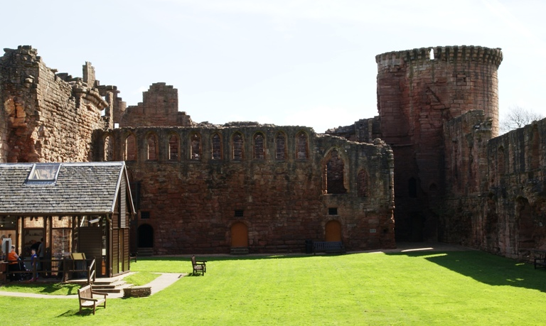 Bothwell Castle, South Lanarkshire, Scotland - great hall and south-east tower